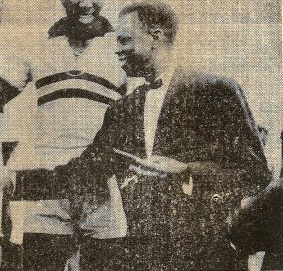 Joseph Iléo at a football/soccer match in 1961